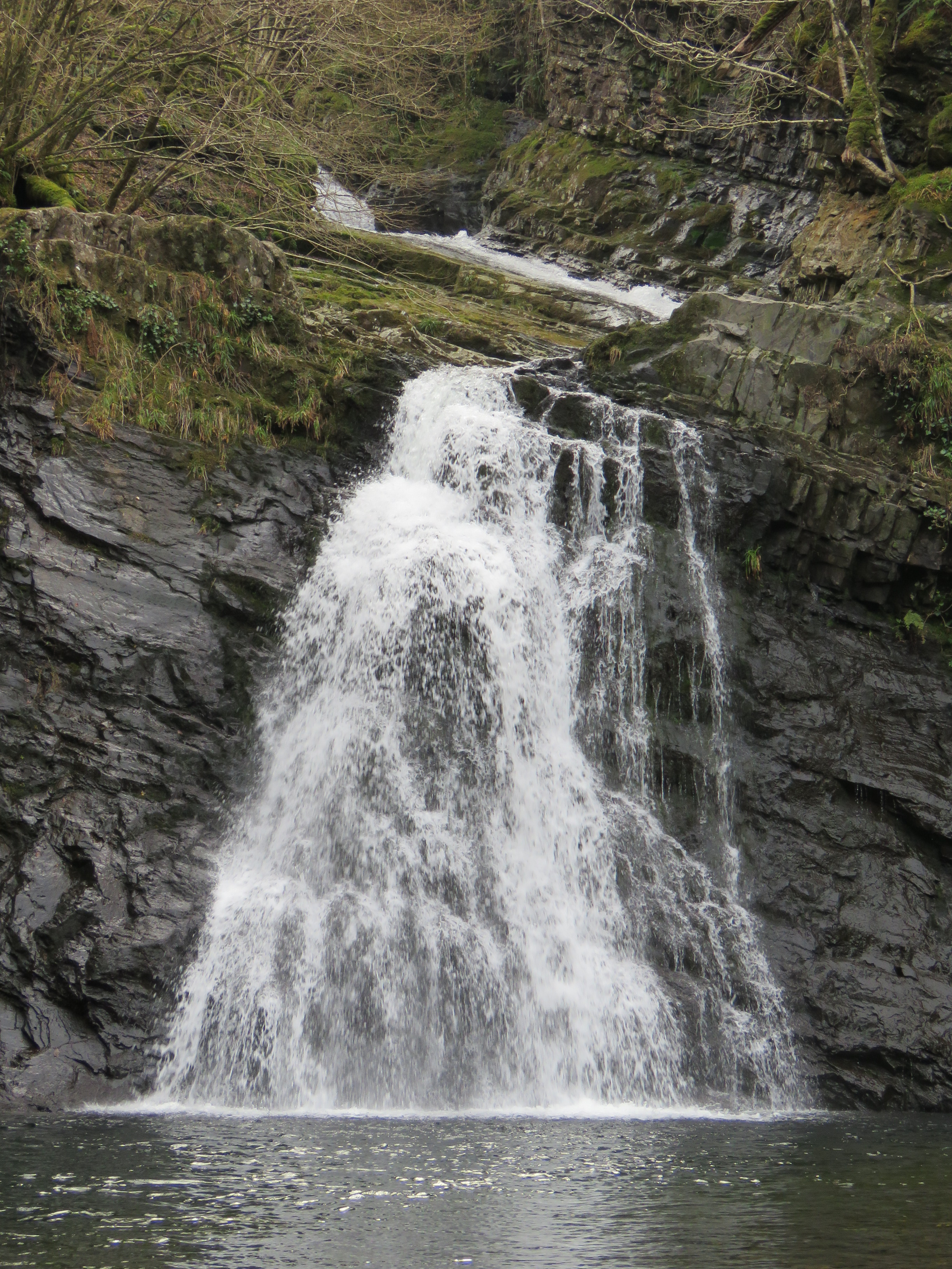 waterfall in Llennych nature reserve, a Welsh temperate rainforest